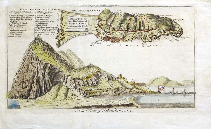 "A Plan of the Town and Fortifications of Gibraltar With All the New Works".